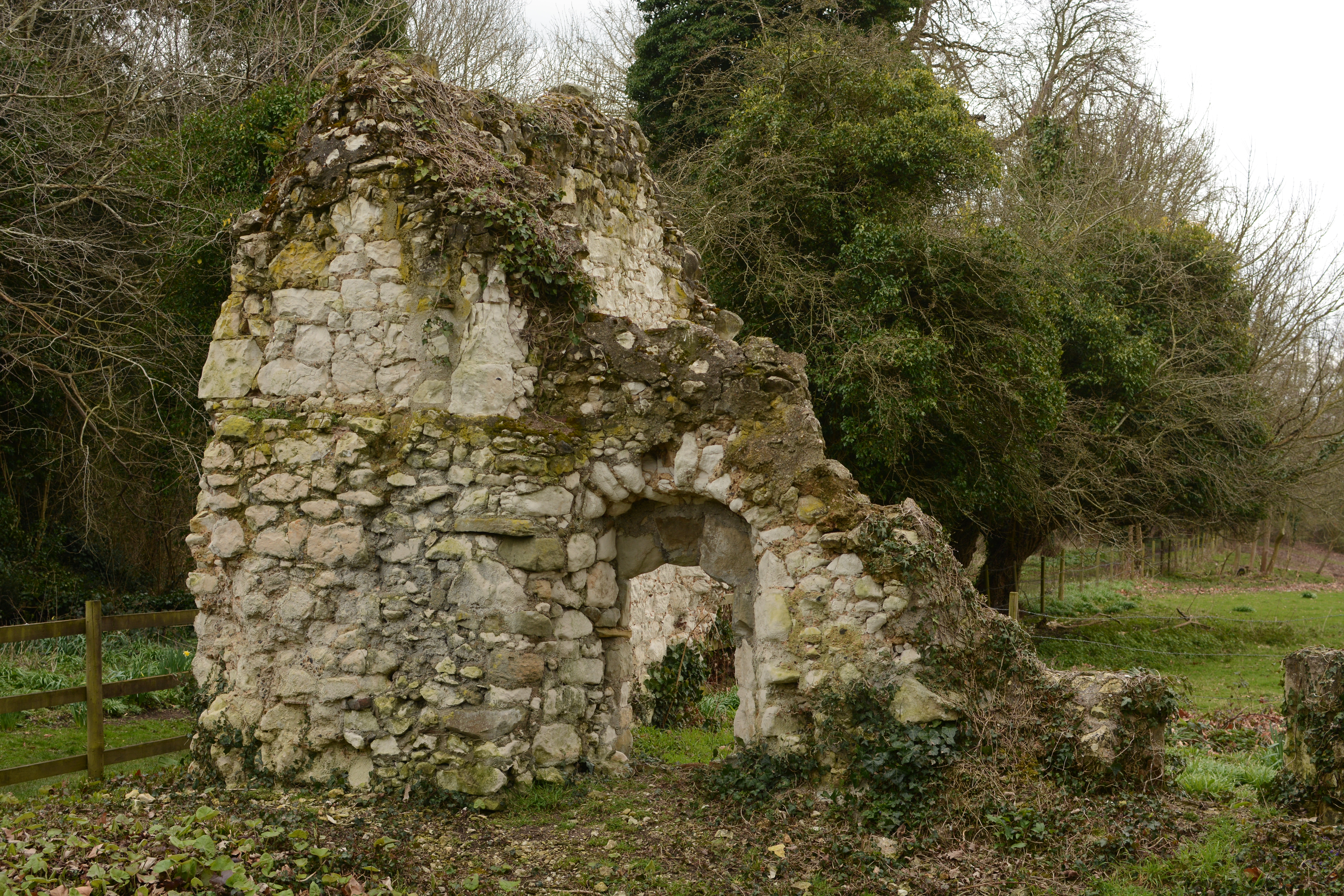 Ankerwyke Priory Ruins Wikidata has entry Q26605426 with data related to this item. Wikidata has entry Q4766038 with data related to this item.